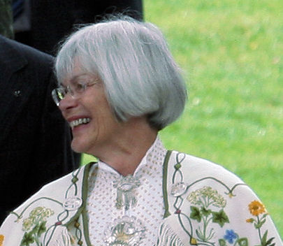 Tora Aasland, Minister of Higher Education in Norway (2007-2012), county governor of Rogaland (1993-2007), member of the Norwegian parliament (1985-1993)